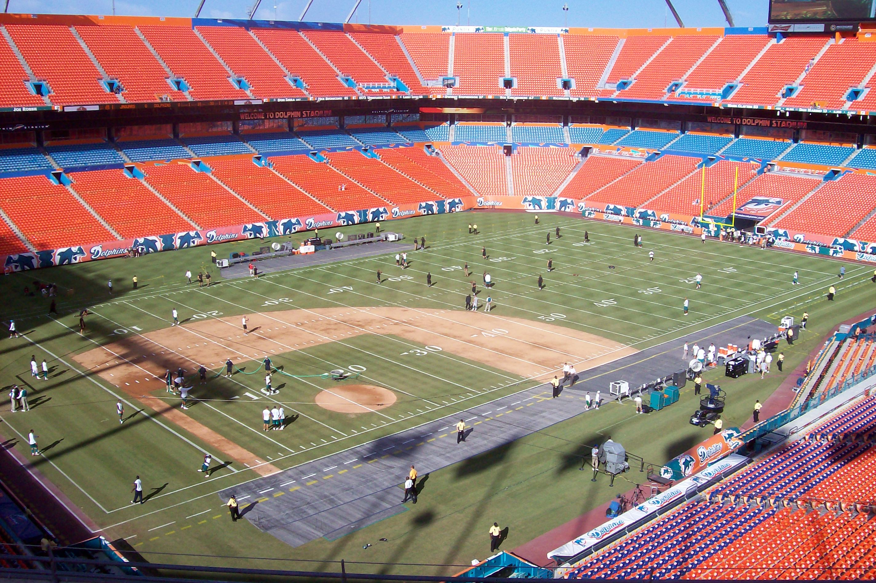 Interior of Dolphin Stadium, football configuration, with the baseball diamond dirt.